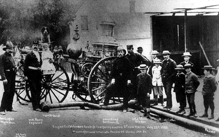 Original photo by Theodore Peiser [126]. Inscription on front reads "Engine No. 1. Volunteer Fire Dept. Temporary quarters 2nd near Marion. July 23rd 1883. House afterward turned into Peisers Art Studio Jan 84." Persons posing with hose cart identified as Joe Keppler (noggleman [sic; presumably "nozzleman"], Will. Perry (engineer), Lizzie McDonald (child), Oscar Krieg (suctionman), John Storm (stoker), Al Cutlar. Subjects (LCTGM): Fire fighters--Washington (State)--Seattle; Fire engines--Washington (State)--Seattle; Group portraits